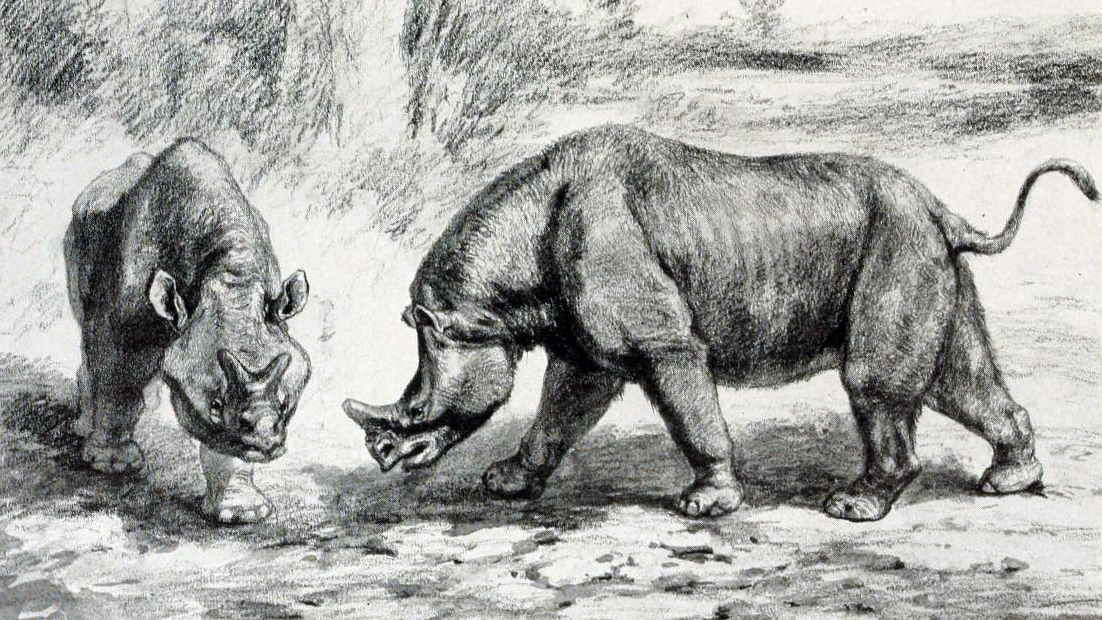 Crop of file in filename